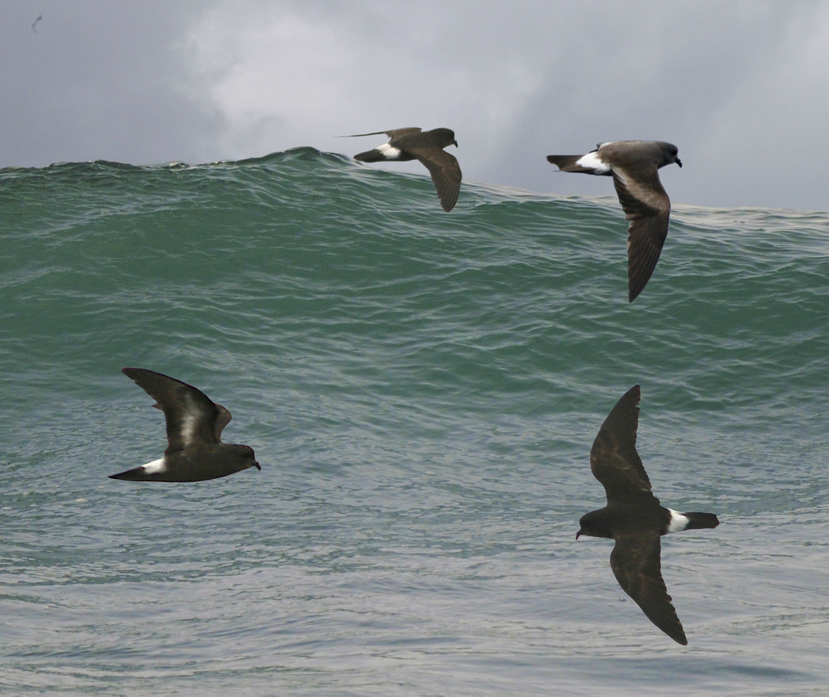 European Storm Petrel from the Crossley ID Guide Britain and Ireland